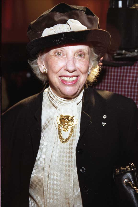 Bluma Appel at the 2000 Comedy Awards.